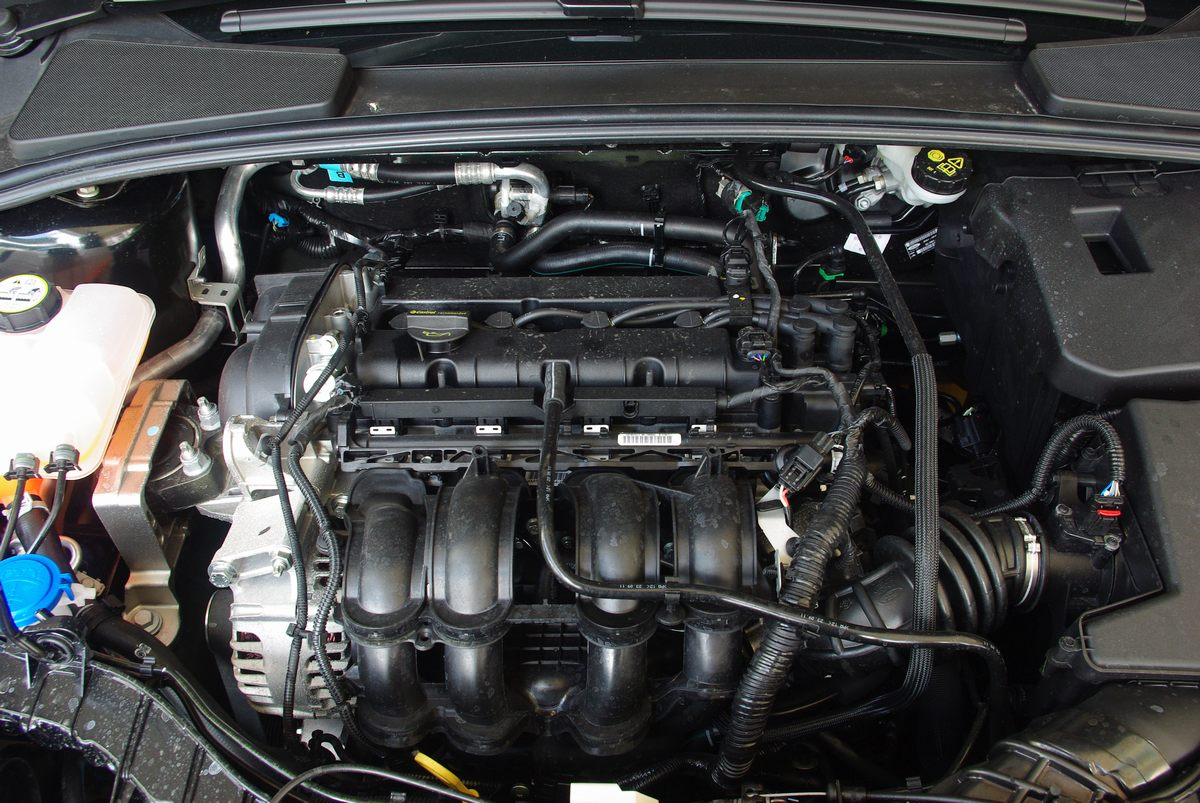 Ford Duratec 1.6 TI-VCT engine (Zetec-SE / Sigma type) in a 2012 Ford Focus